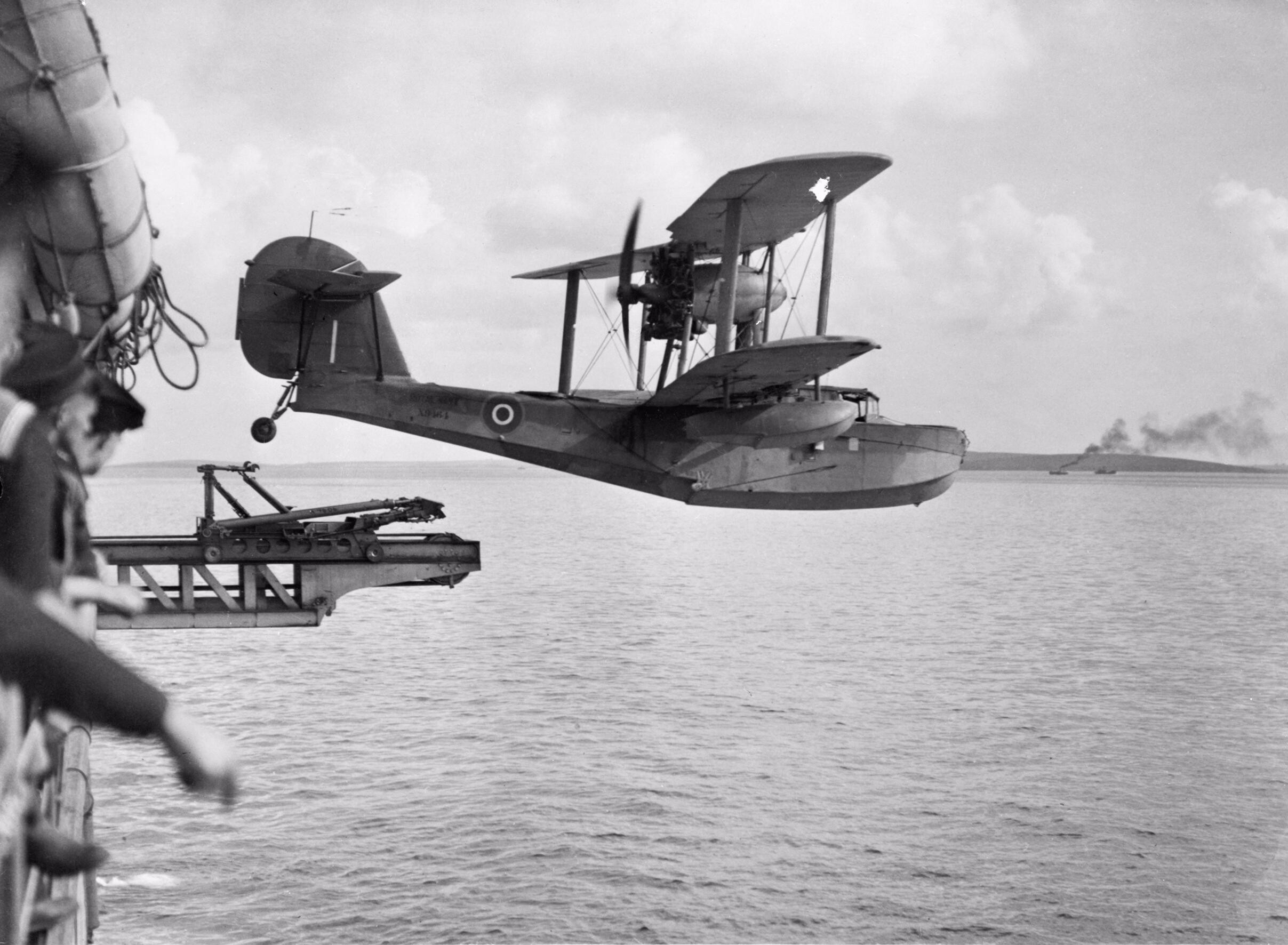 A Supermarine Walrus amphibian airplane being launched from the catapult deck of HMS BERMUDA. The aircraft has just left the catapult.